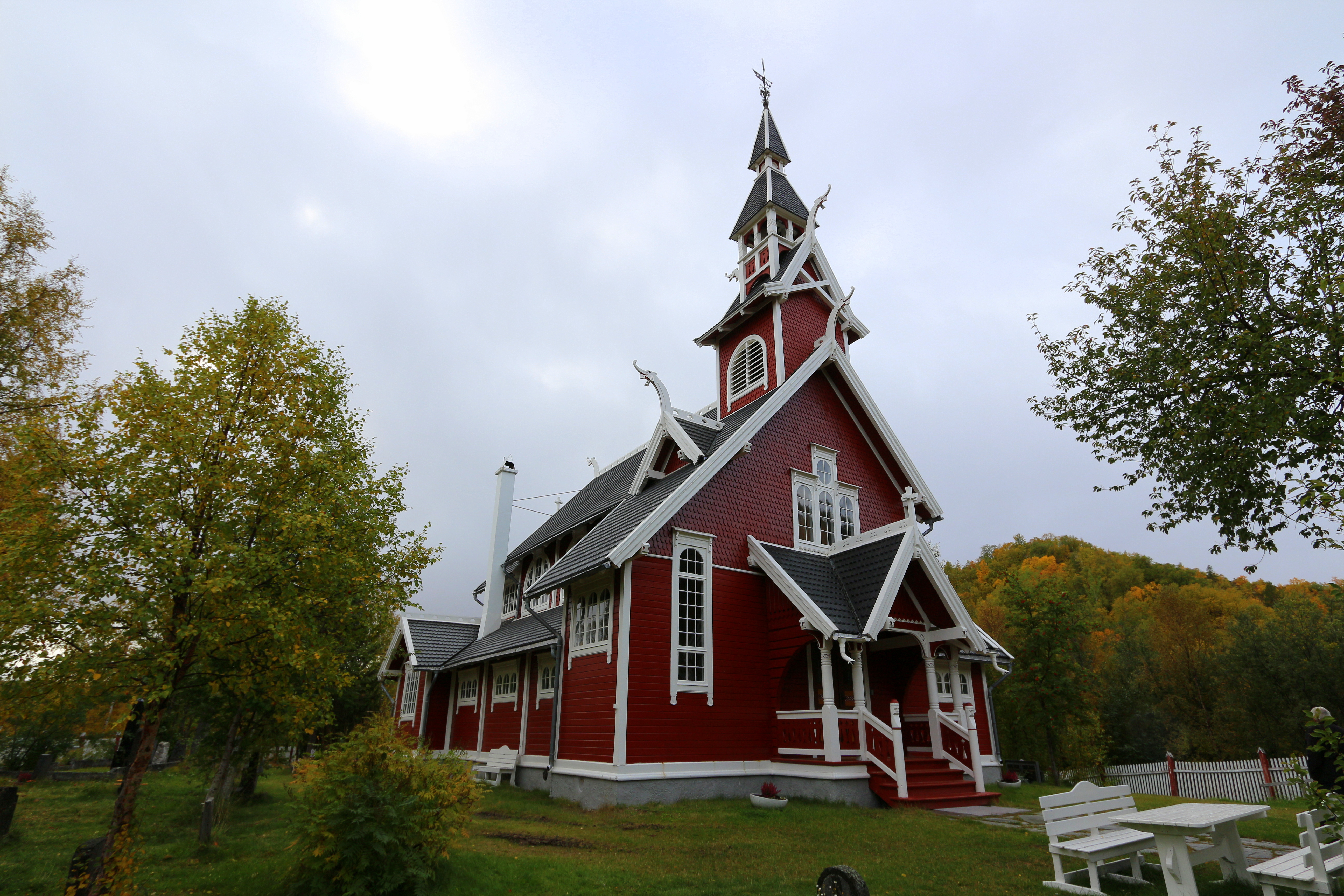 Neiden church in Sør-Varanger seen from north east.